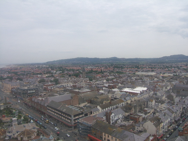 Rhyl from the Sky Tower Rhyl, taken from the top of the Sky Tower